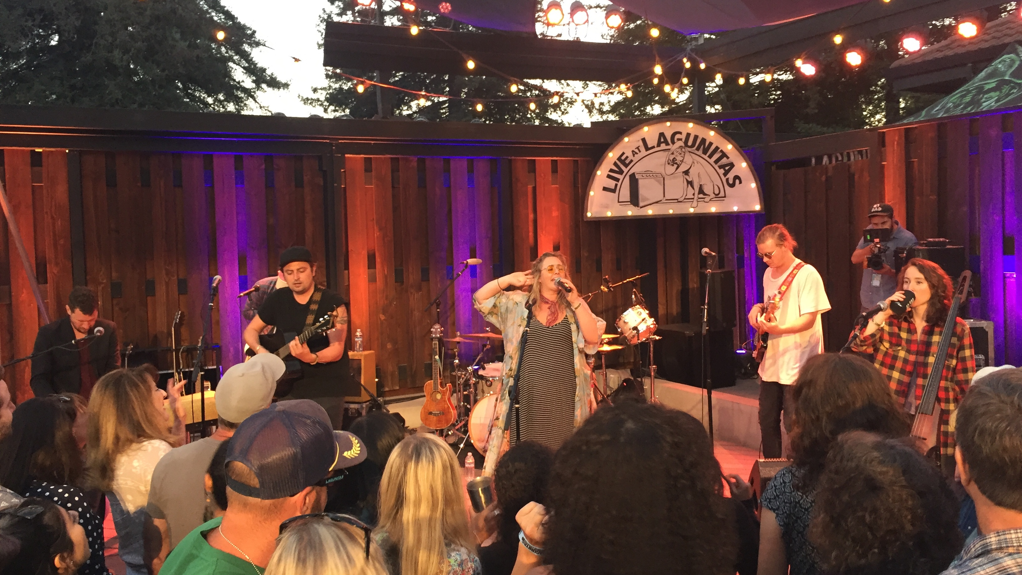 The American rock band Wild Child performing a concert at Lagunitas Brewery in Petaluma, CA on July 31 2018.